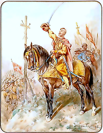 Prince Jeremi Wiśniowiecki